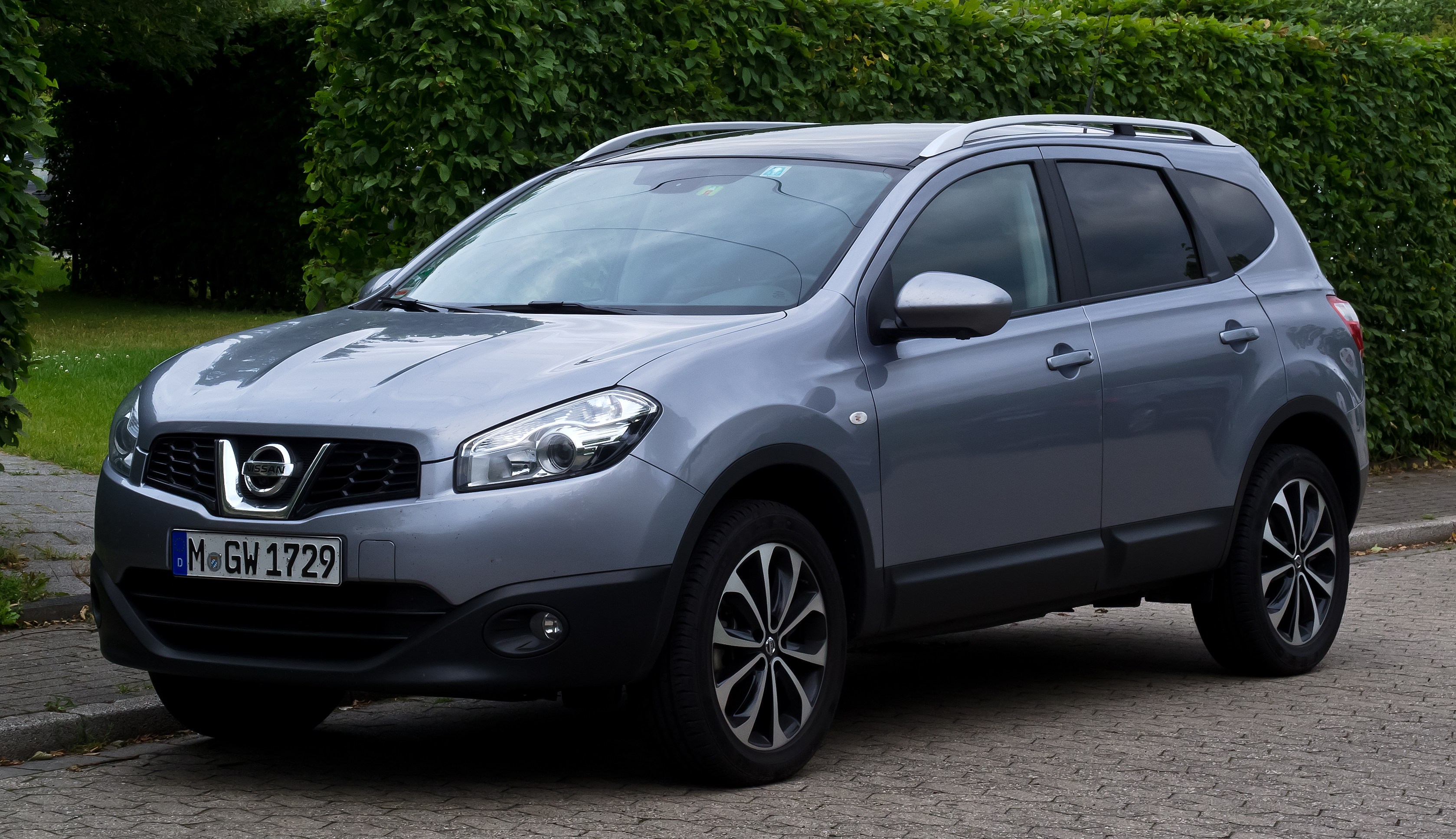 Nissan Qashqai+2 (Facelift)